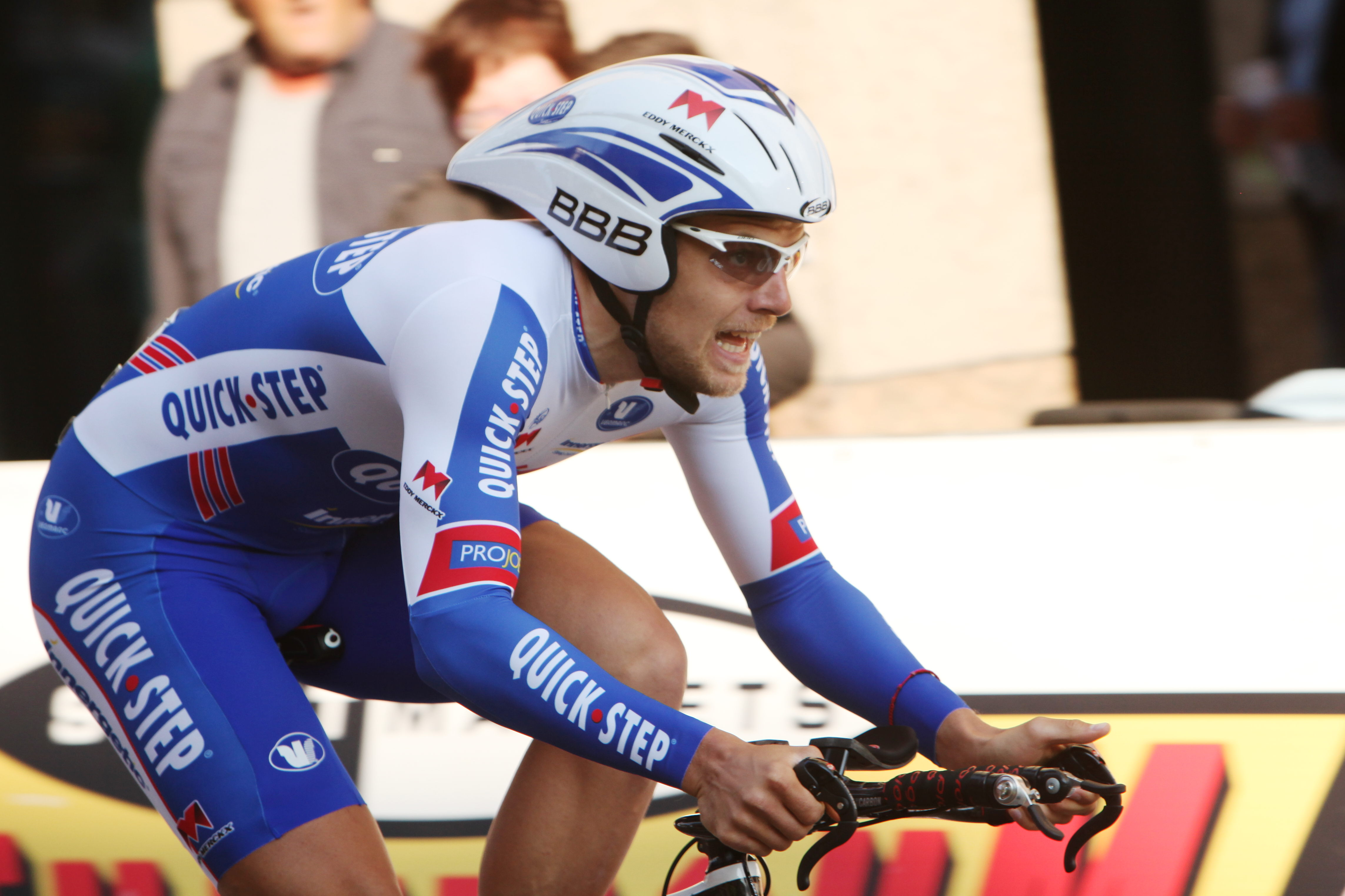 Gerald Ciolek at the prologue of the Tour de Romandie 2011